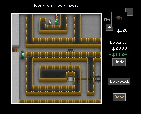 Screenshot from The Castle Doctrine. The player character reorganizes his house to protect his vault. His wife and children are visible in the top-center of the screen. Taken from PC Gamer. The game's author, Jason Rohrer, confirmed by email that the art assets (logos, etc.) are indeed under the same PD license (ticket:2016120910025281) as the game.